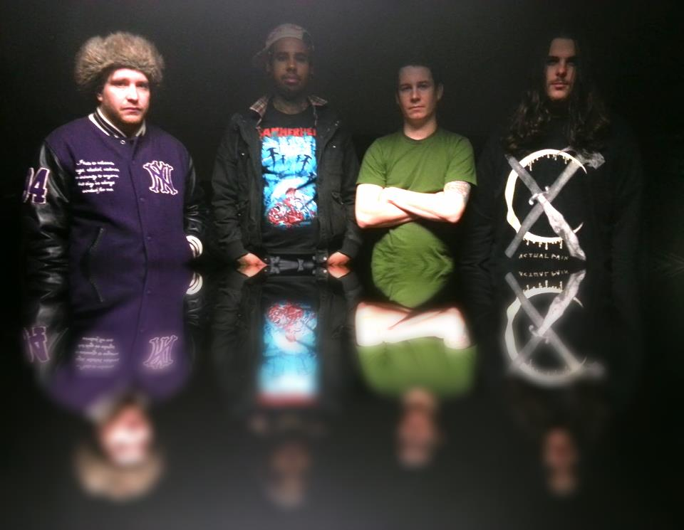 2013 photo featuring current line up of Hardcore band, ENDWELL